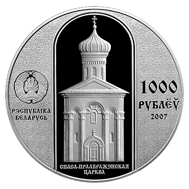 History and Culture of Belarus. Commemorative Coin "Kryzh Eўfrasіnnі Polatskay" ("Cross Euphrosyne of Polotsk")